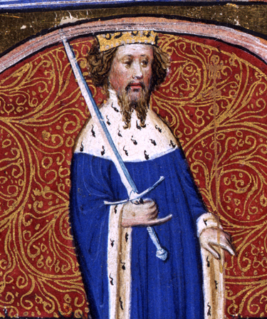 Description: Illuminated initial letter showing Henry IV from the records of the Duchy of Lancaster. Before his usurpation of Richard II in 1399, Henry was Duke of Lancaster. Date: c.1402 Our Catalogue Reference: DL 42/1 This image is from the collections of The National Archives. Feel free to share it within the spirit of the Commons. For high quality reproductions of any item from our collection please contact our image library.